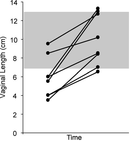 Vaginal length in 8 women with CAIS before and after dilation therapy as first line treatment. The normal reference range (shaded) is derived from 20 control women. Duration and extent of therapy varied; the median time to completion of treatment was 5.2 months, and the median number of 30-minute dilations per week was 5. Original work, created with data from the following source: Ismail-Pratt IS, Bikoo M, Liao L, Conway GS, Creighton SM. Normalization of the vagina by dilator treatment alone in complete androgen insensitivity syndrome and mayer-rokitansky-kuster-hauser syndrome. Hum Reprod. 2007;22:2020-2024.